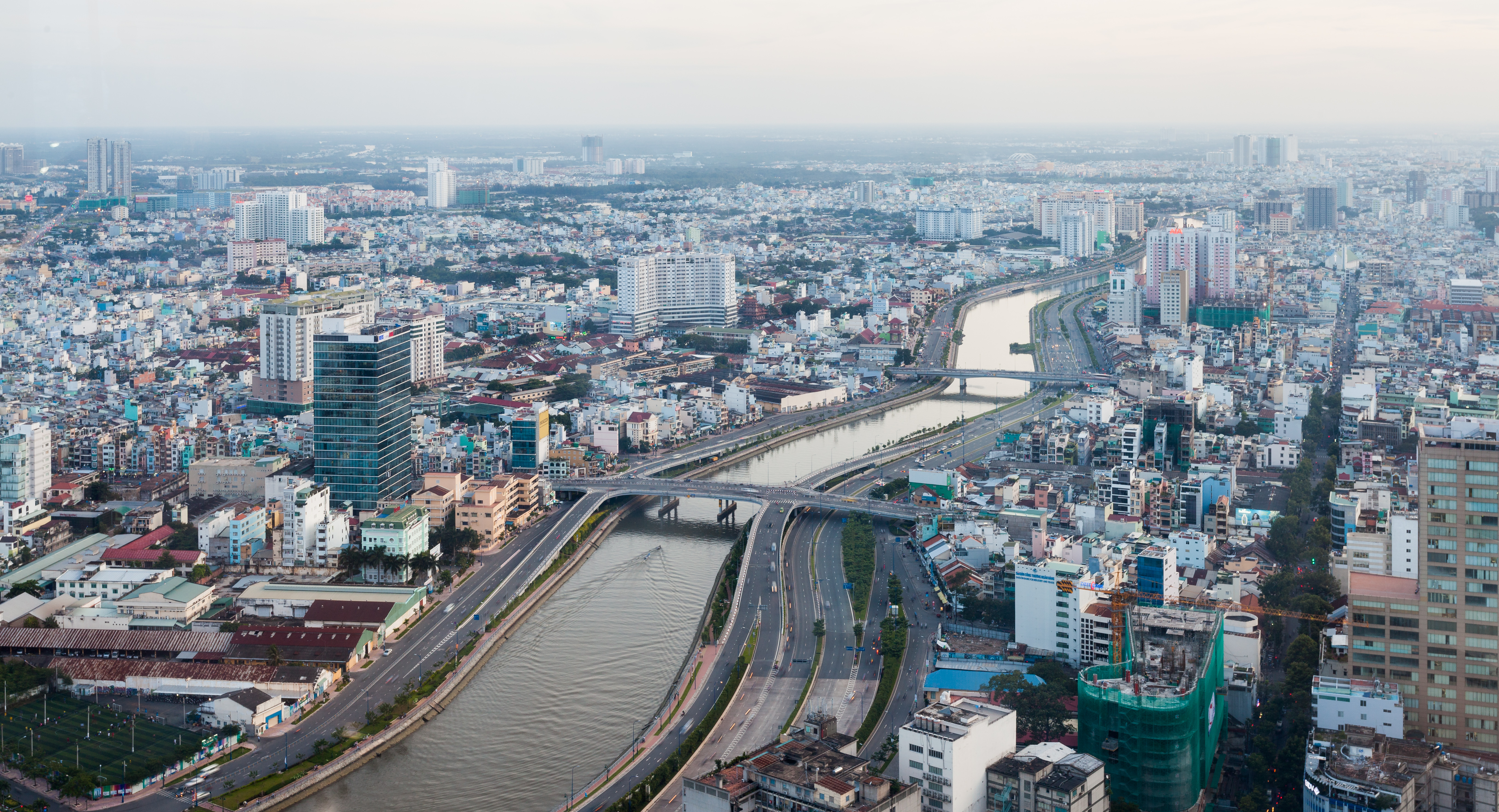 View of Ho Chi Minh City from Bitexco Financial Tower, Vietnam